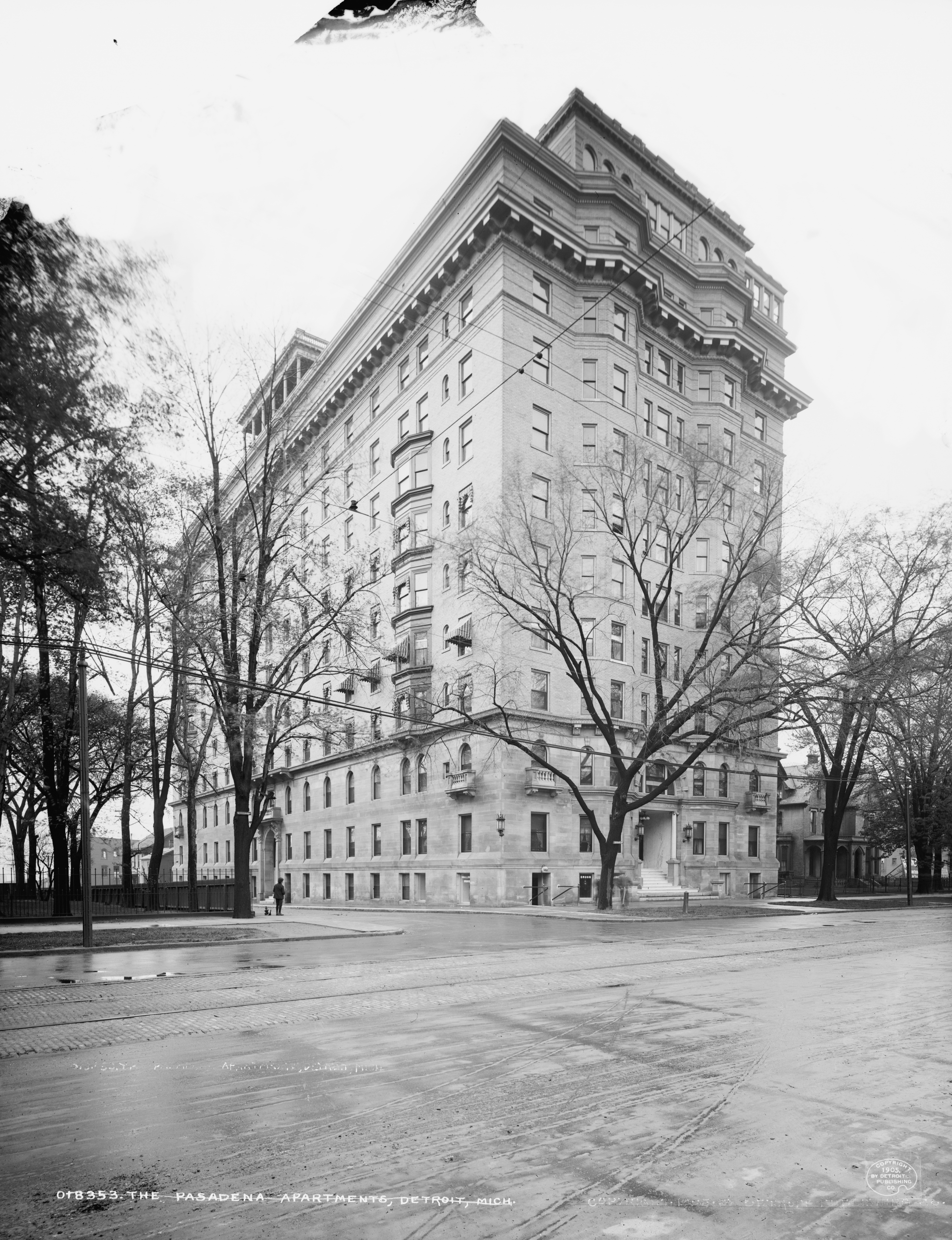 Pasedena Apartments — at 2170 East Jefferson Avenue, Detroit, Michigan (c. 1905). Built in 1902, in the Renaissance Revival style. An early example of upper-class, multi-unit housing, and is one of the earliest of these structures to be built with reinforced concrete (brick and limestone facing). Classical details on the upper floors, including a cornice and false balconies, seen here have since been removed. On the National Register of Historic Places.